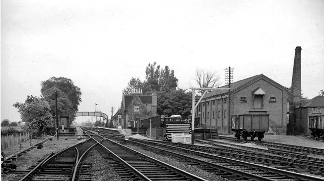 Bingham Station. View eastwards, towards Grantham; Nottingham - Grantham secondary main line.